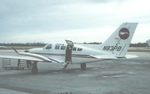 Provinceton-Boston Airline Cessna 402C N83PB at Key West Florida